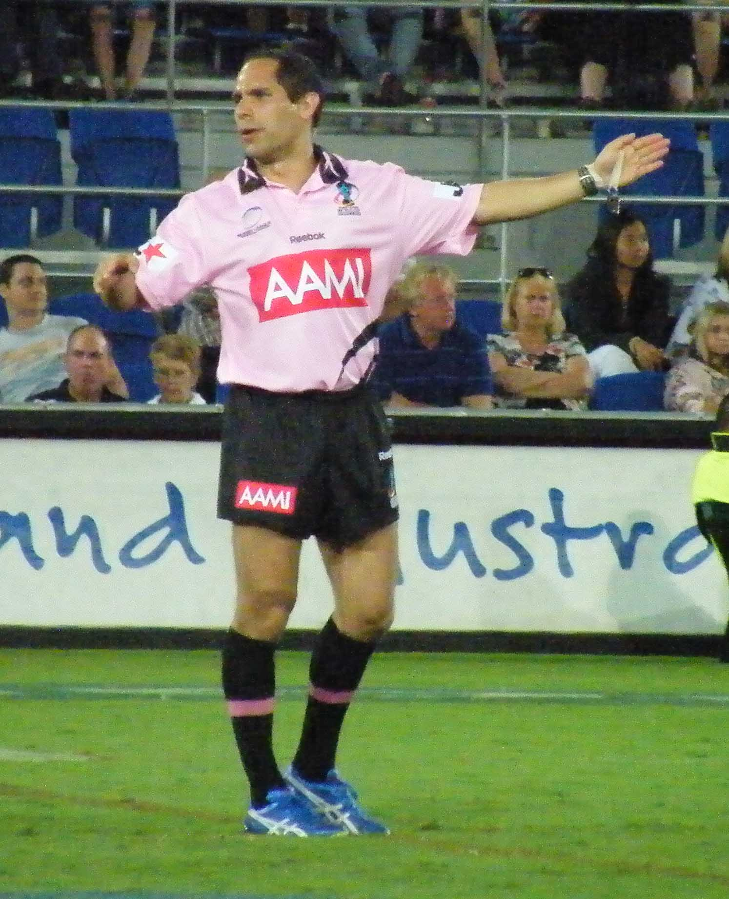 RLWC - Fiji v Ireland, Gold Coast 2008. Super League Referee Ashley Klein.